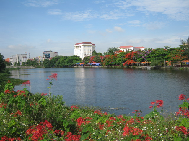 Máy Xay Lake, Ninh Bình